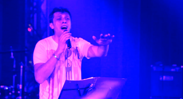 Aram Mp3 performing Love Is Gone by David Guetta